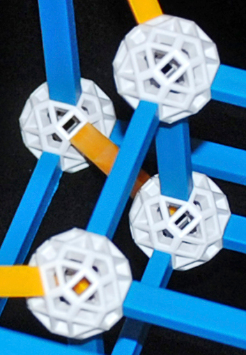 Vertex elements of the Zometool construction set